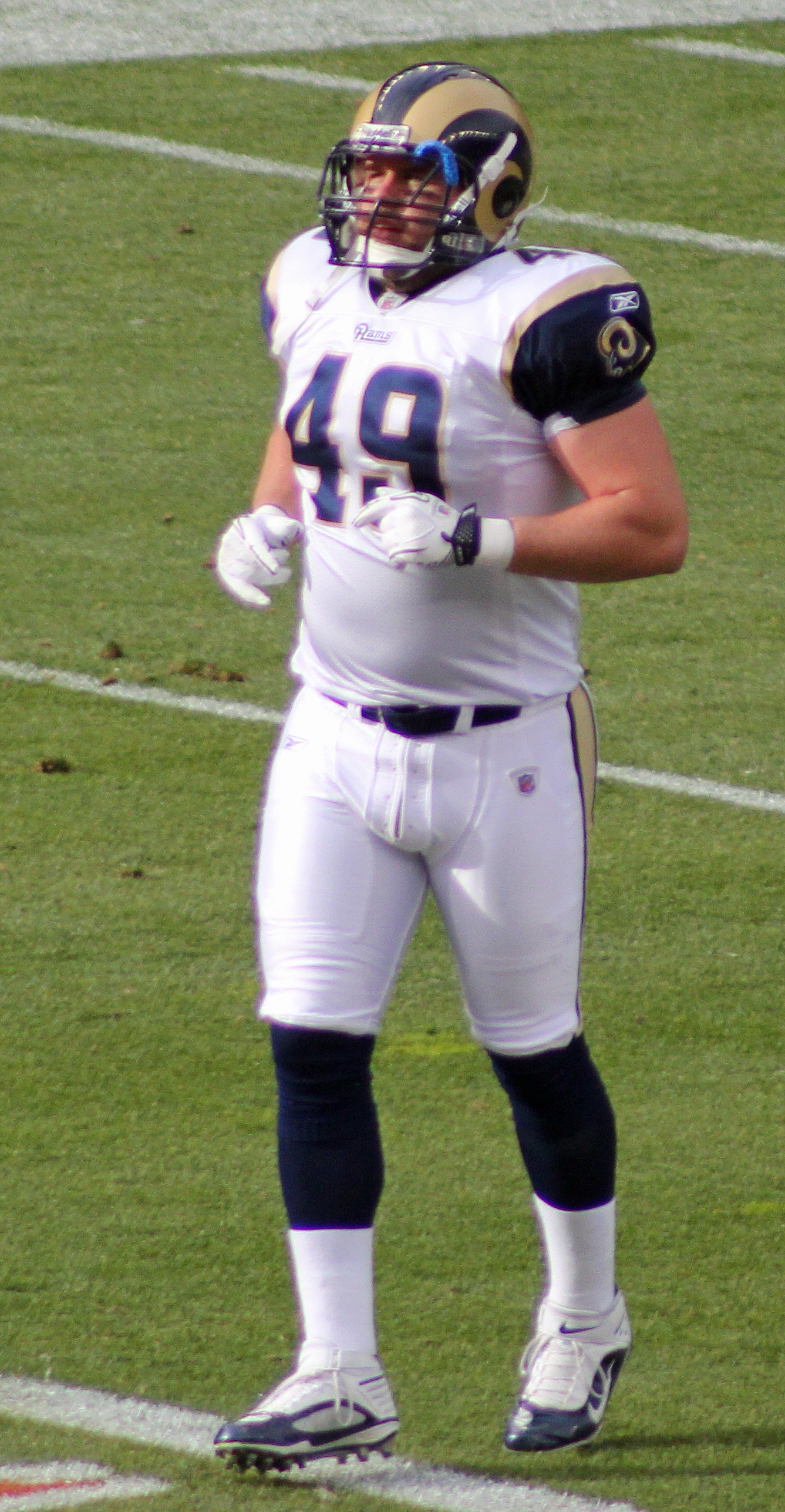 Brit Miller, a player on the Saint Louis Rams American football team.